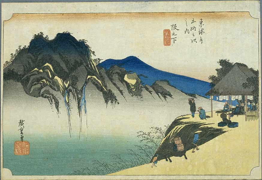 Sakanoshita on the Tokaido, ukiyo-e prints by Hiroshige